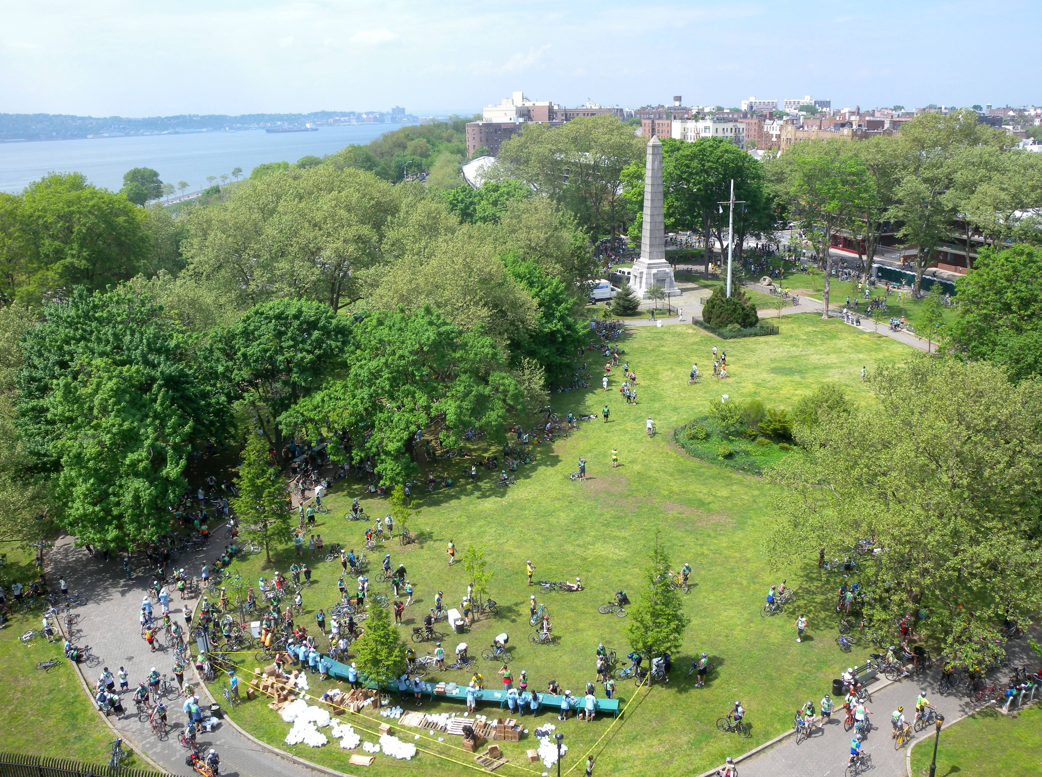 Looking down and north from VZB on a mostly sunny afternoon at John Paul Jones Park and its obelisk.